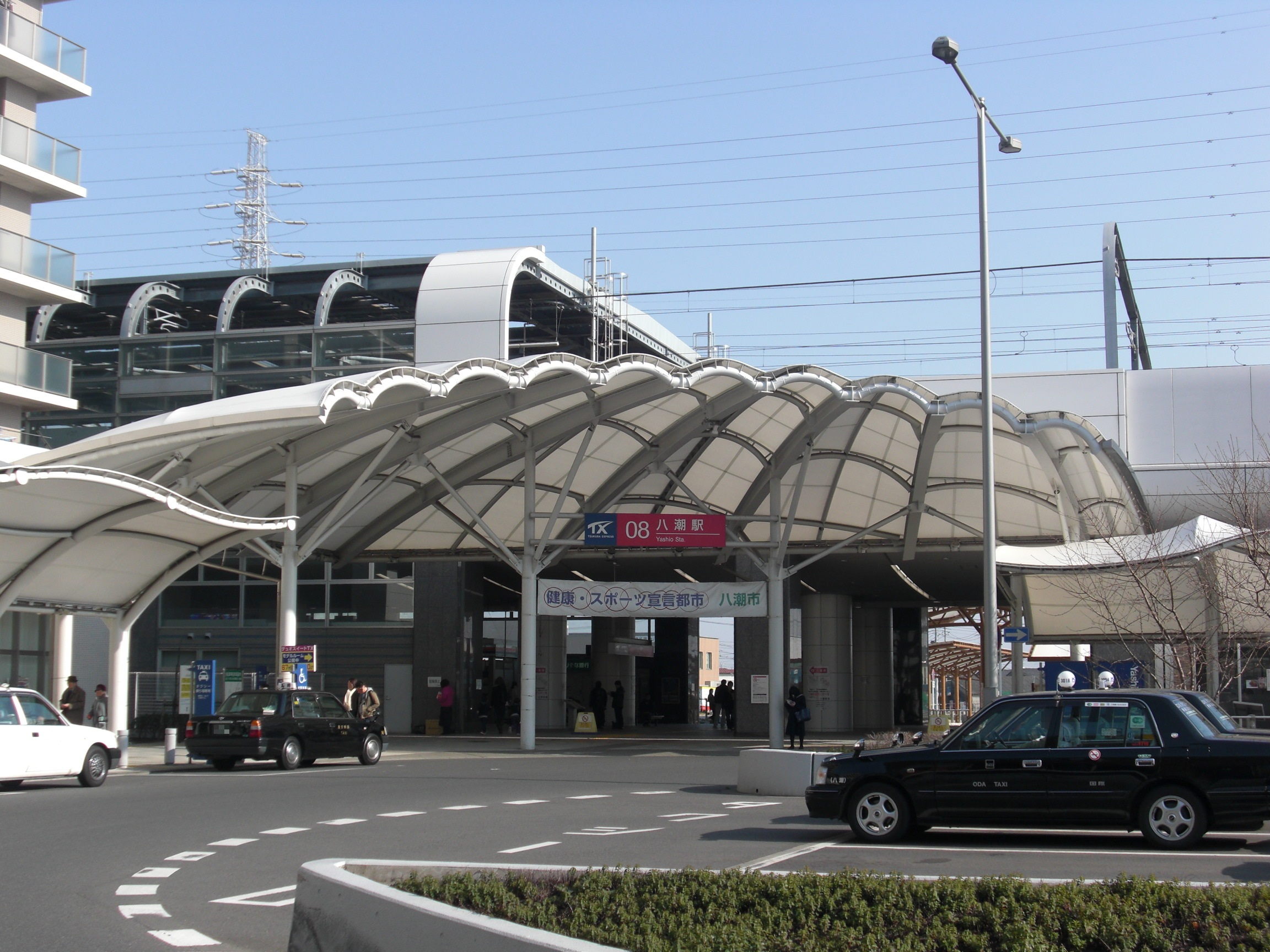 This is the north exit of Tsukuba Express Line Yashio station.